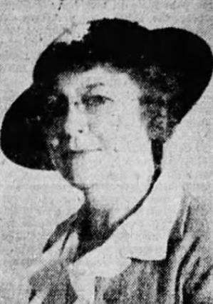 Screenshot-2017-9-23 2 Jul 1939, Page 4 - Medford Mail Tribune at Newspapers com